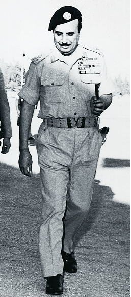 Habes_al-Majali when serving in the Arab Legion.